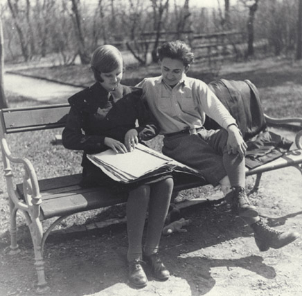 Description: Young woman and man braille reading on park bench. Israelitisches Blinden-Institut; Vienna (which translates, roughly, as Jewish School for the Blind in Vienna) Creator/Photographer: unknown Medium: black-and-white reproduction Date: undated (early 20th century) Persistent URL: Repository: Leo Baeck Institute Parent Collection: Siegfried Altmann Collection Call Number: AR 2901 Rights Information: No known copyright restrictions; may be subject to third party rights. For more copyright information, click here. See more information about this image and others at CJH Digital Collections.